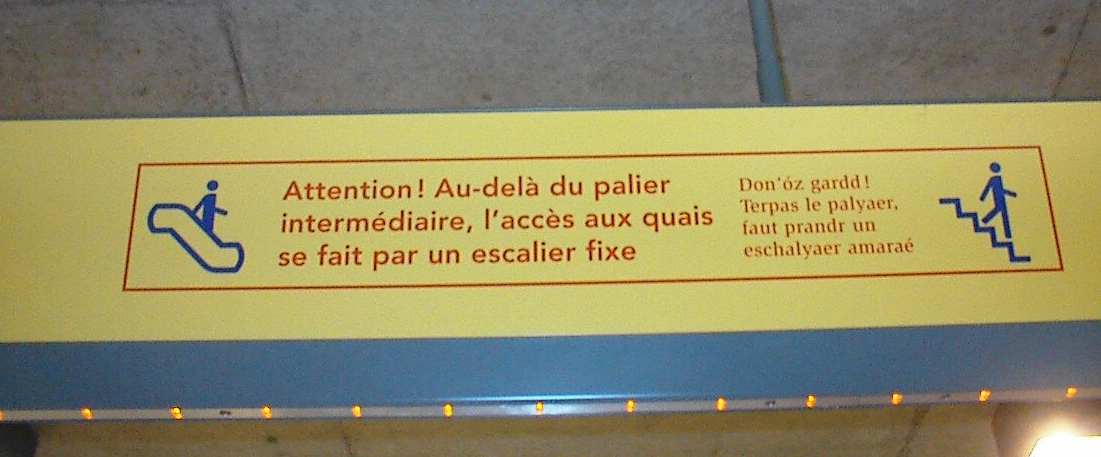 A picture of a bilingual sign in a metro station in Rennes written in French/Gallo.